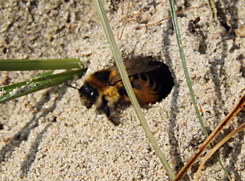 Dasypoda altercator, a solitary bee, photograped at the Hompelvoet, Grevelingenmeer, The Netherlands on 30 August 2015.